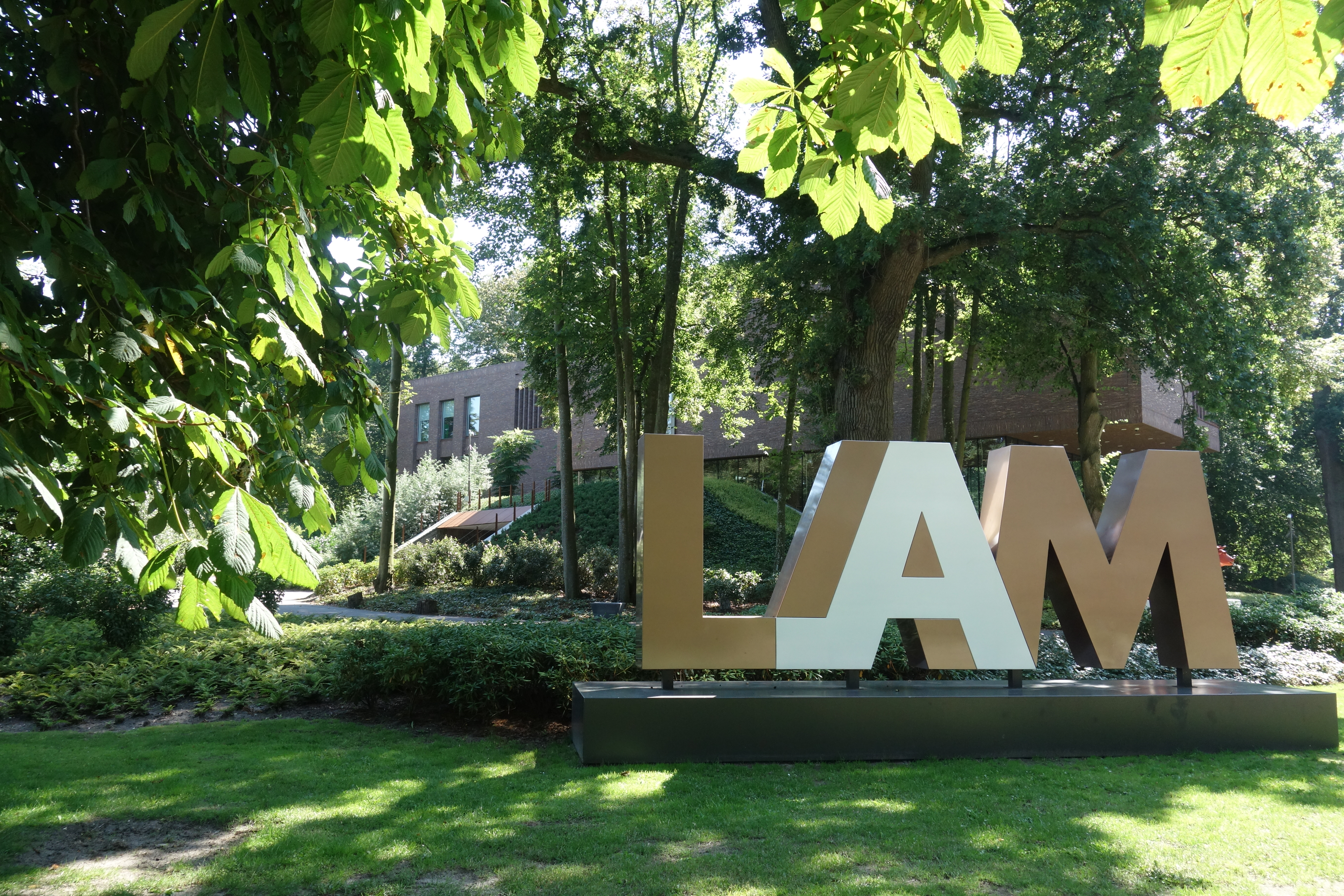 Lisser Art Museum (LAM) in 2019. (Keukenhof, the Netherlands)